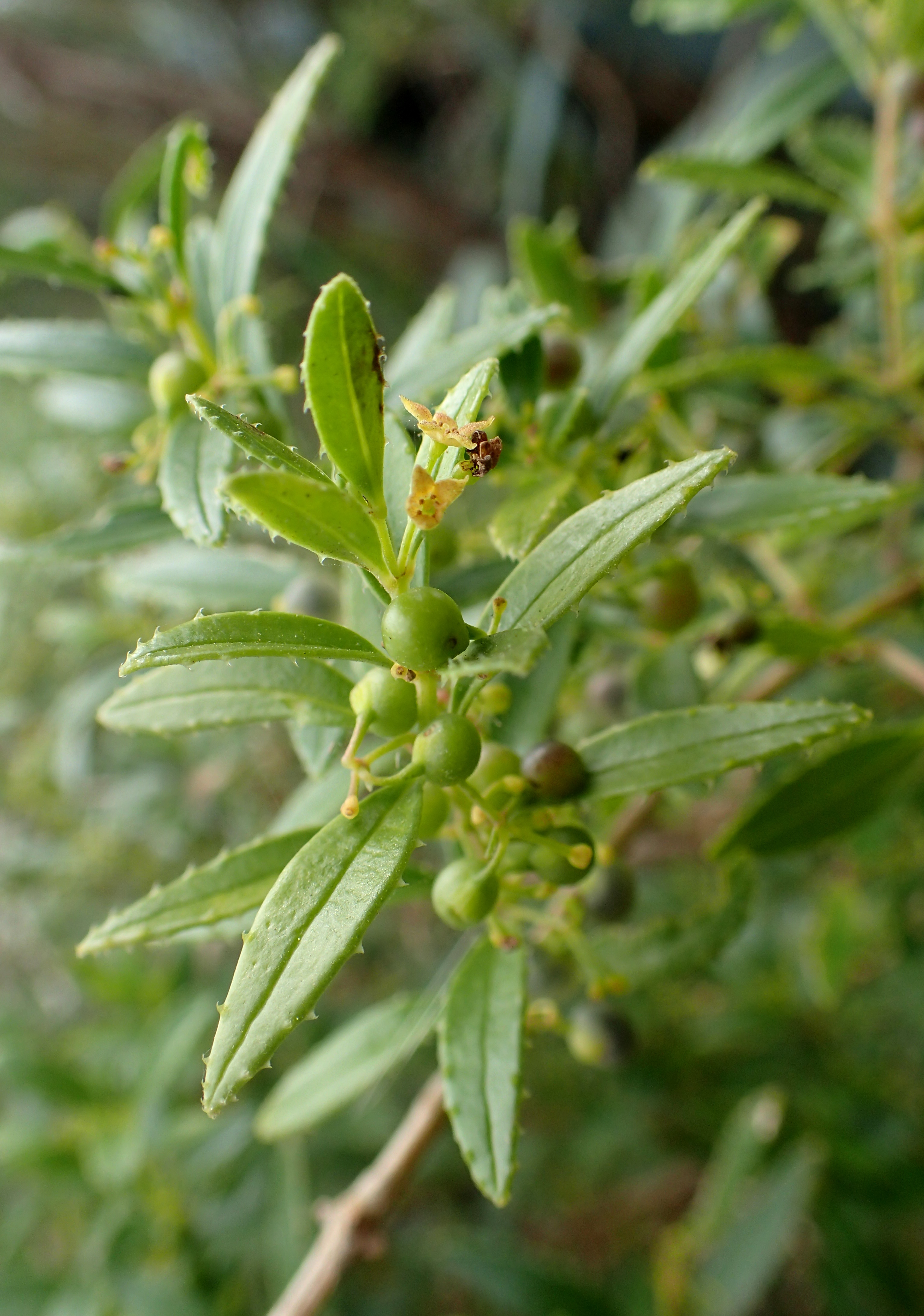 Rubia fruticosa in vicinity of Los Carrizales, Tenerife, Canary Islands